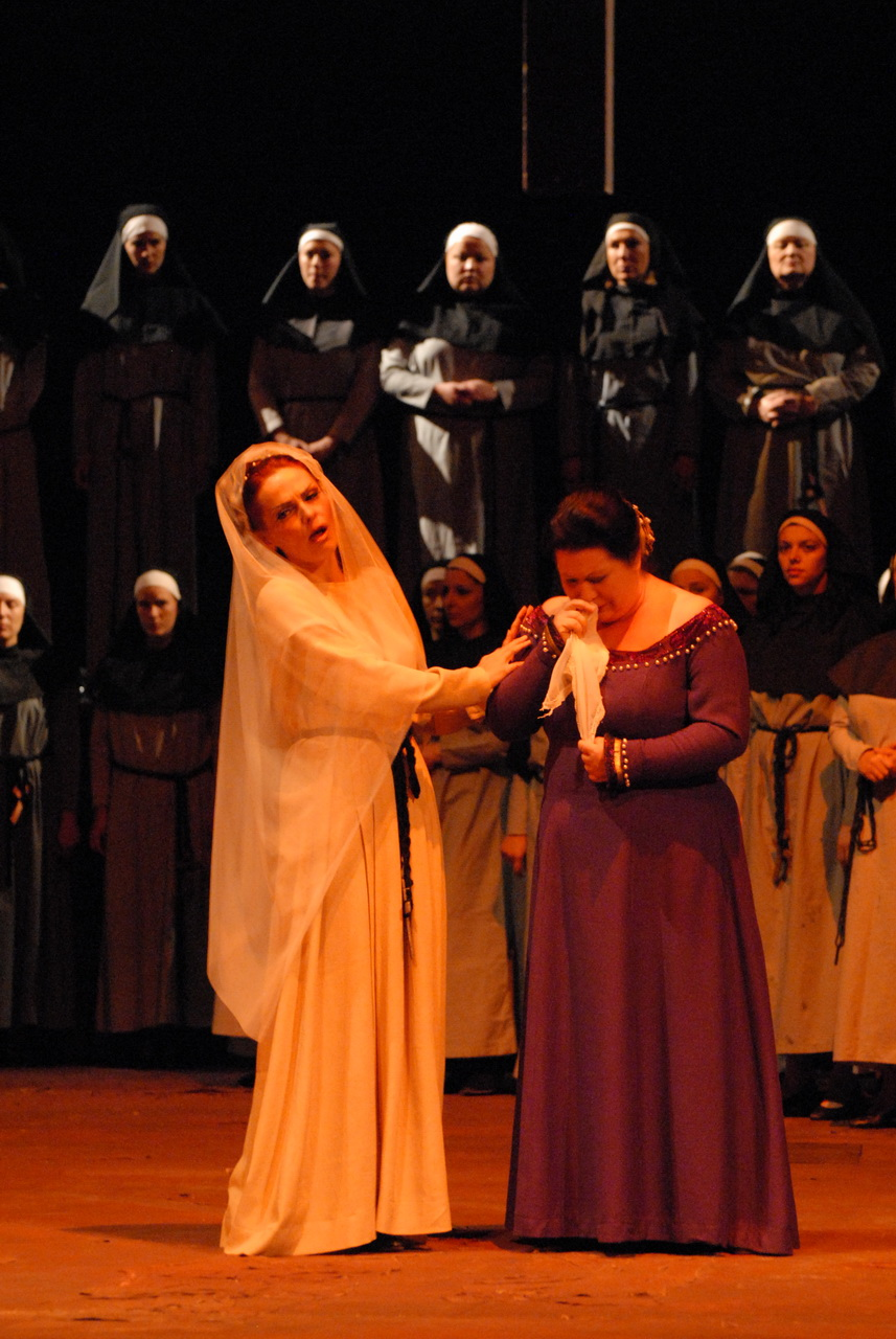 "The Troubadour", an opera in four acts by Giuseppe Verdi, directed by Voja Soldatović, Opera of the SNT, Novi Sad, 2008/09; Svitlana Dekar (soprano), Laura Pavlović (soprano), and Opera Women's choir of SNT Srpski (latinica): "Trubadur", opera iz četiri čina Đuzepe Verdija u režiji Voje Soldatovića; Opera SNP-a, Novi Sad, 2008/09; Svitlana Dekar (sopran), Laura Pavlović (sopran), ženski Hor opere SNP-a Српски (ћирилица): "Трубадур", опера из четири чина Ђузепе Вердија у режији Воје Солдатовића; Опера СНП-а, Нови Сад, 2008/09; Свитлана Декар (сопран), Лаура Павловић (сопран), женски Хор опере СНП-а